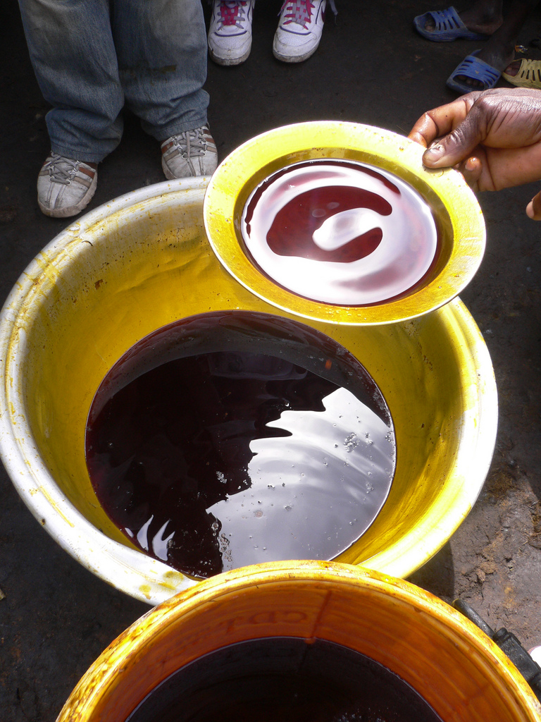 Palm oil production in rural Jukwa, Ghana